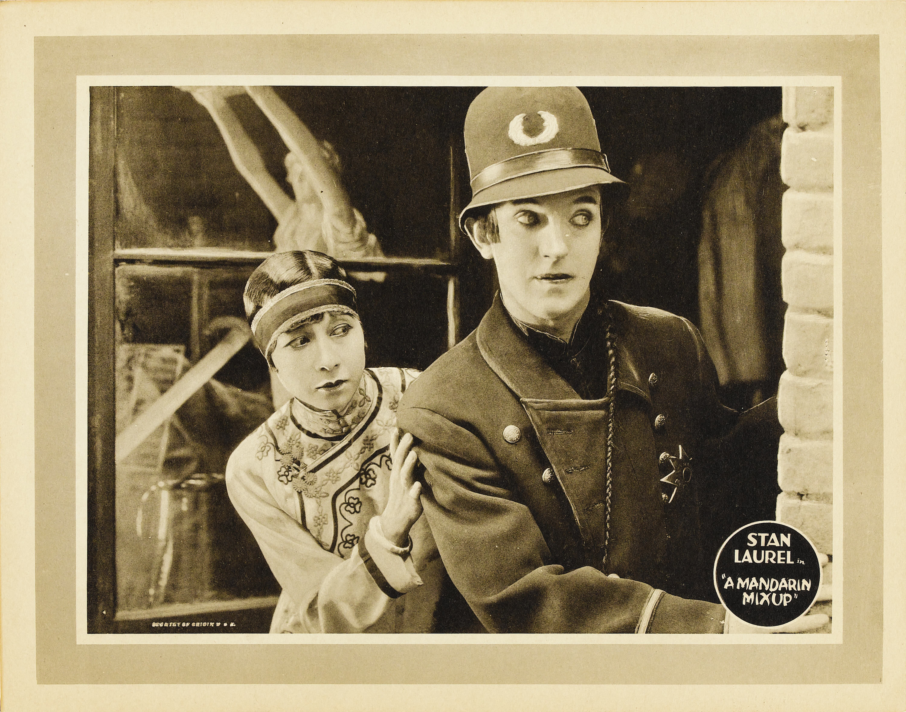 Lobby card for the 1924 short film, A Mandarin Mixup, starring Stan Laurel and Julie Leonard (1902–1987).